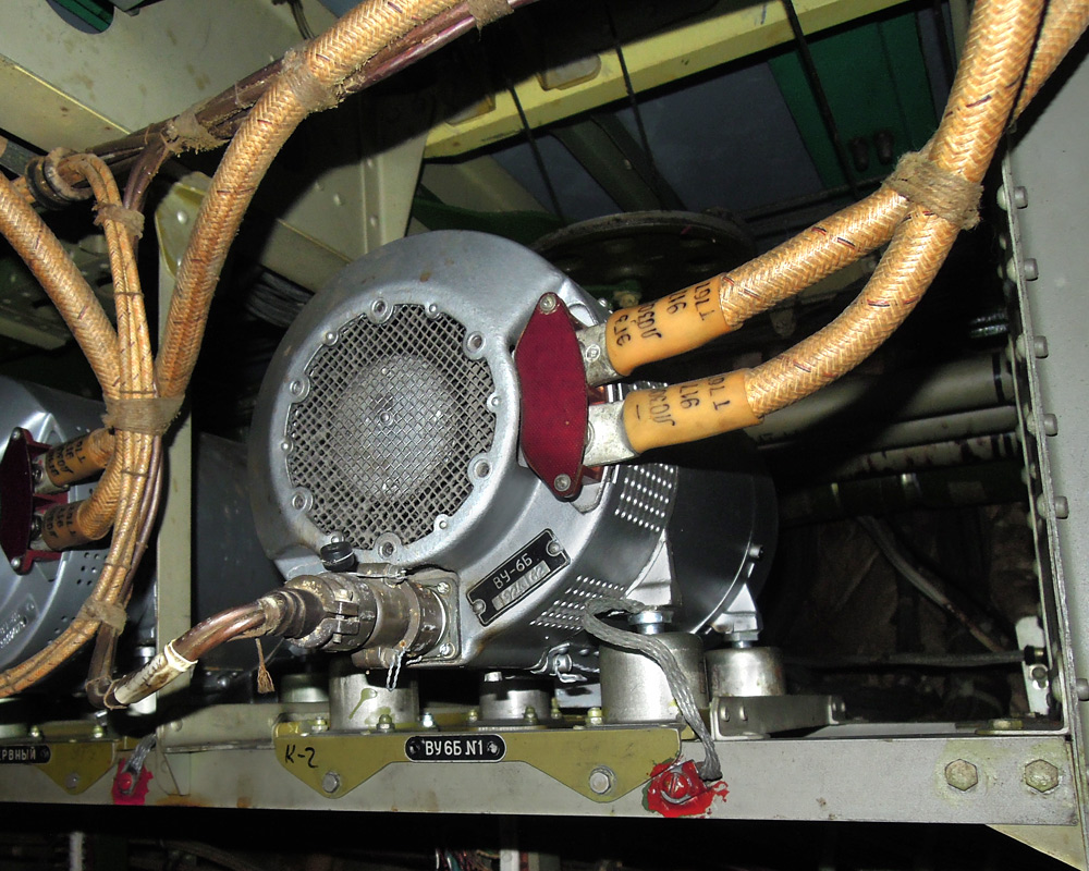 Rectifying device (208 V 400 Hz to 27 V DC) VU-6B in the technical bay of Tu-154 plane.